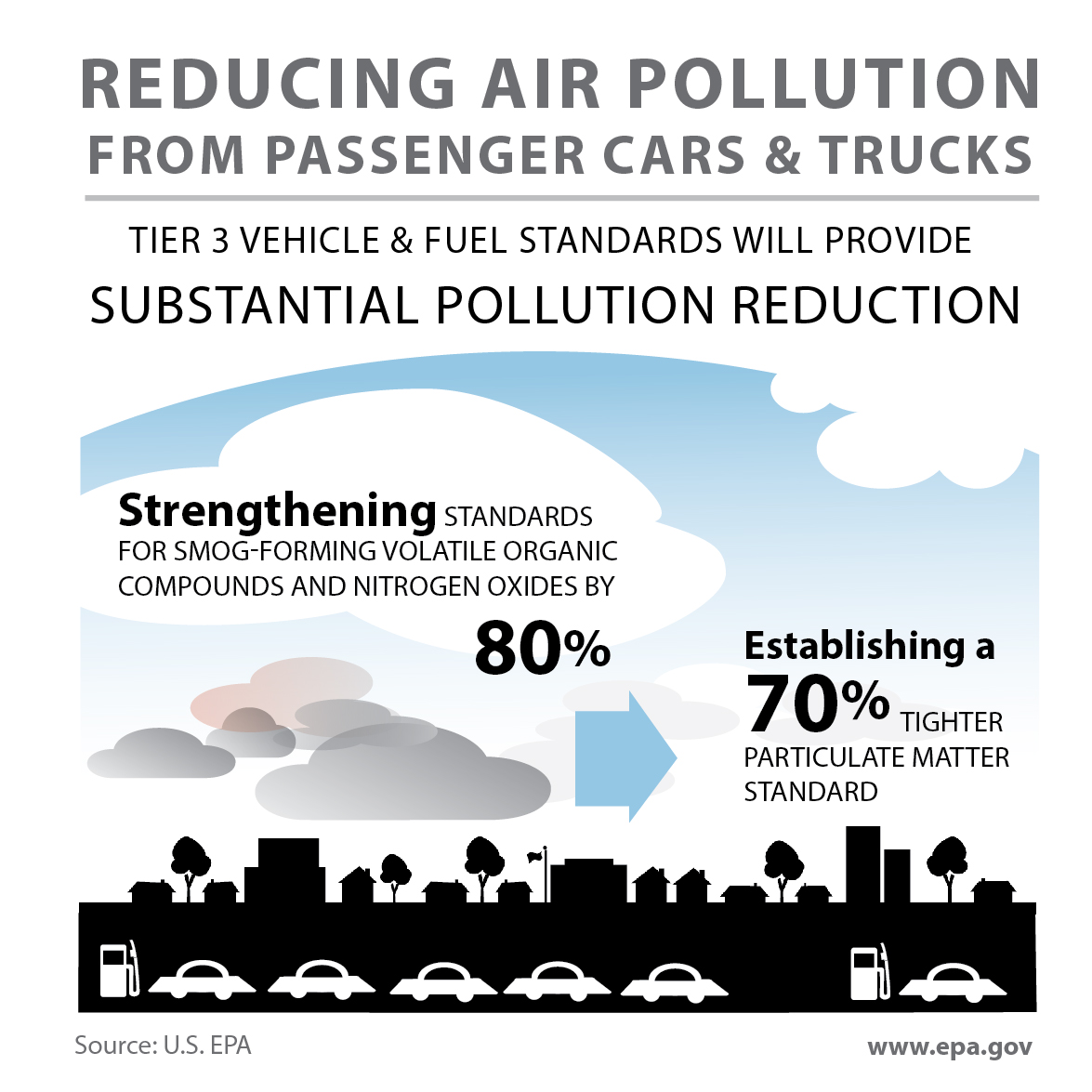 Our new vehicle and fuel standards slash emissions of harmful pollutants, strengthening the standards for smog-forming volatile organic compounds and nitrogen oxides by 80%, establishing a 70% tighter particle pollution standard, and virtually eliminating fuel vapor emissions.